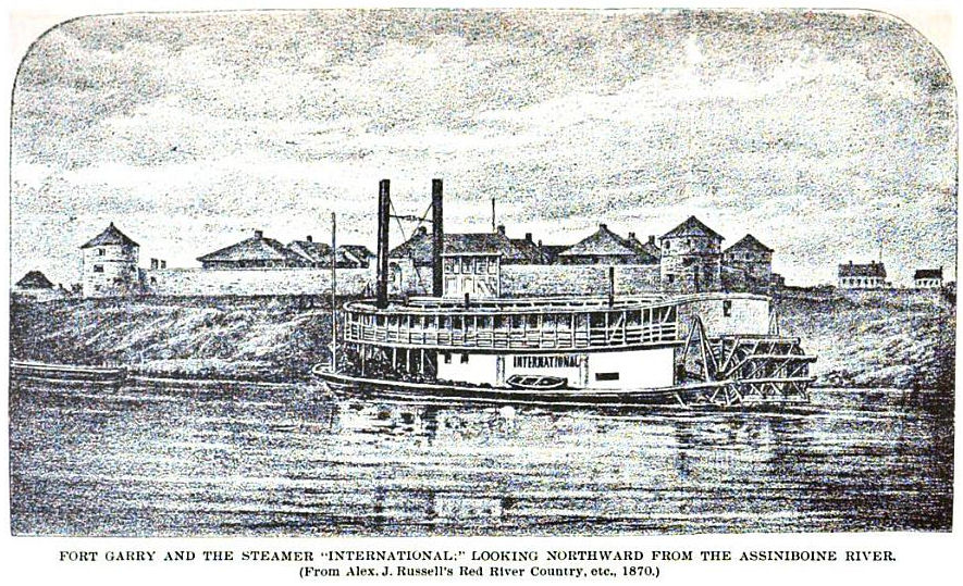 Steamboat 'International' in Winnipeg Manitoba, Collections of the Minnesota Historical Society, Opening of the Red River of the North to Commerce and Civilization by Captain Russell Blakely, Published by the Society, St. Paul, MN 1898, Volume VIII, Pages 45-66